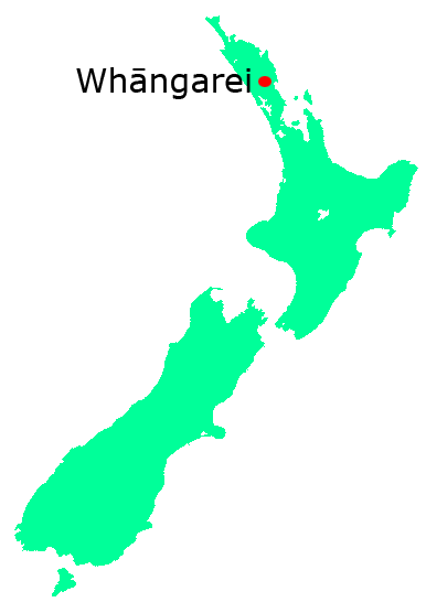 Map of New Zealand showing the location of Whāngarei, a city (= English 'Whangarei' )